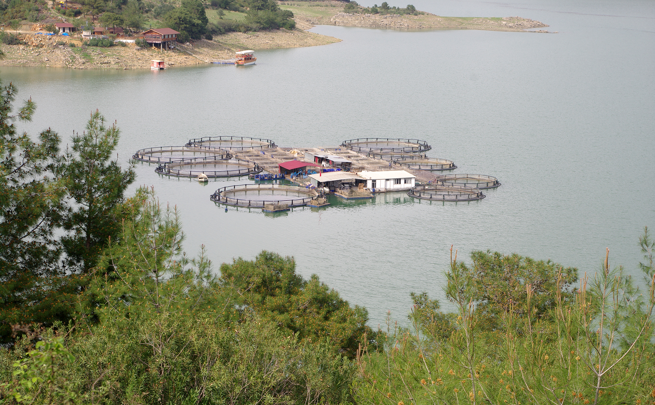 A fish farm at Kozan Dam Lake. Kozan, Adana - Turkey.